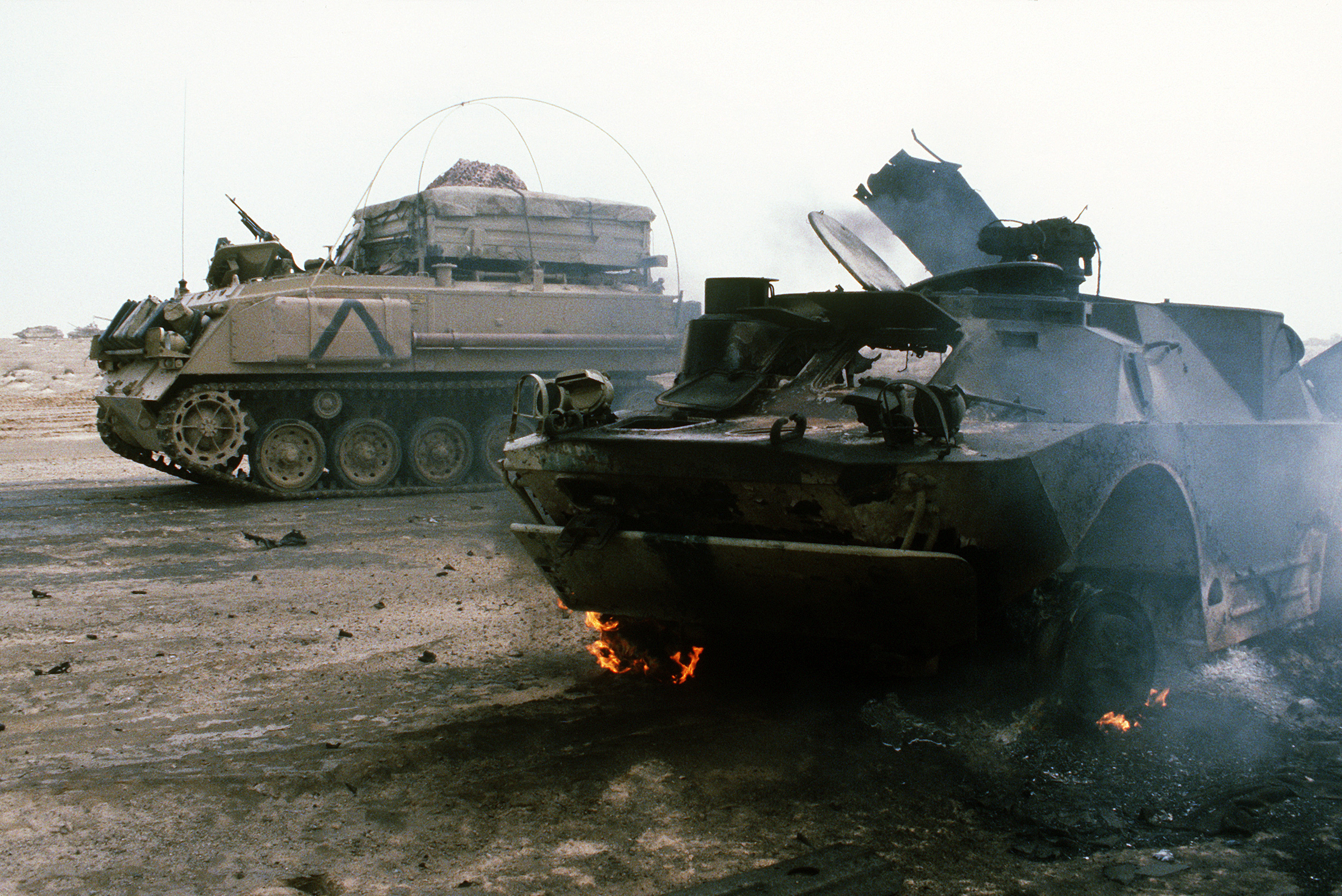 The tires of an Iraqi BRDM-2 amphibious scout car continue to burn as an FV432 armored personnel carrier of the 7th Brigade Royal Scots, 1st United Kingdom Armored Division, advances east into Kuwait from southern Iraq during Operation Desert Storm.